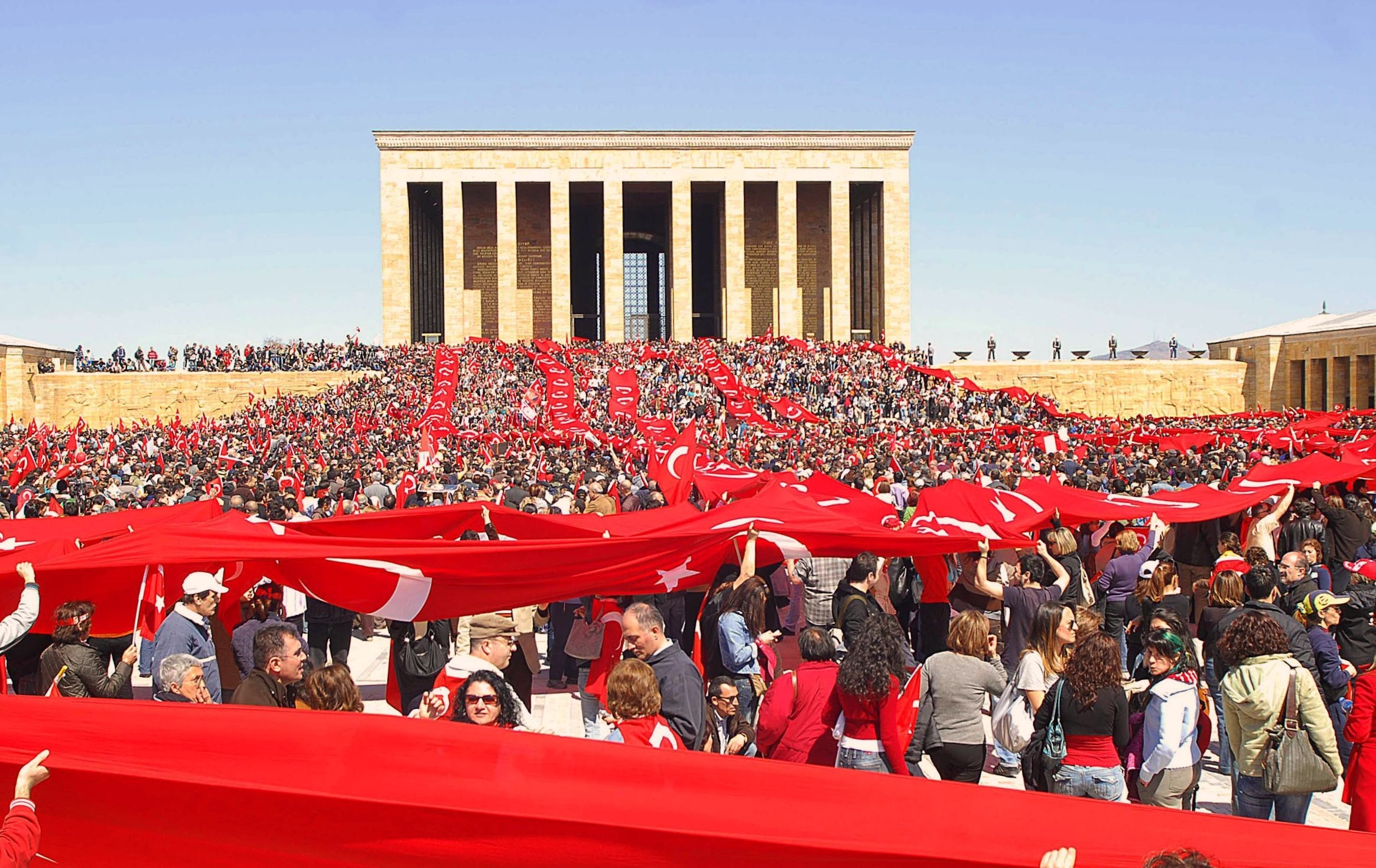 Protect Your Republic Protest that had taken place at Anıtkabir